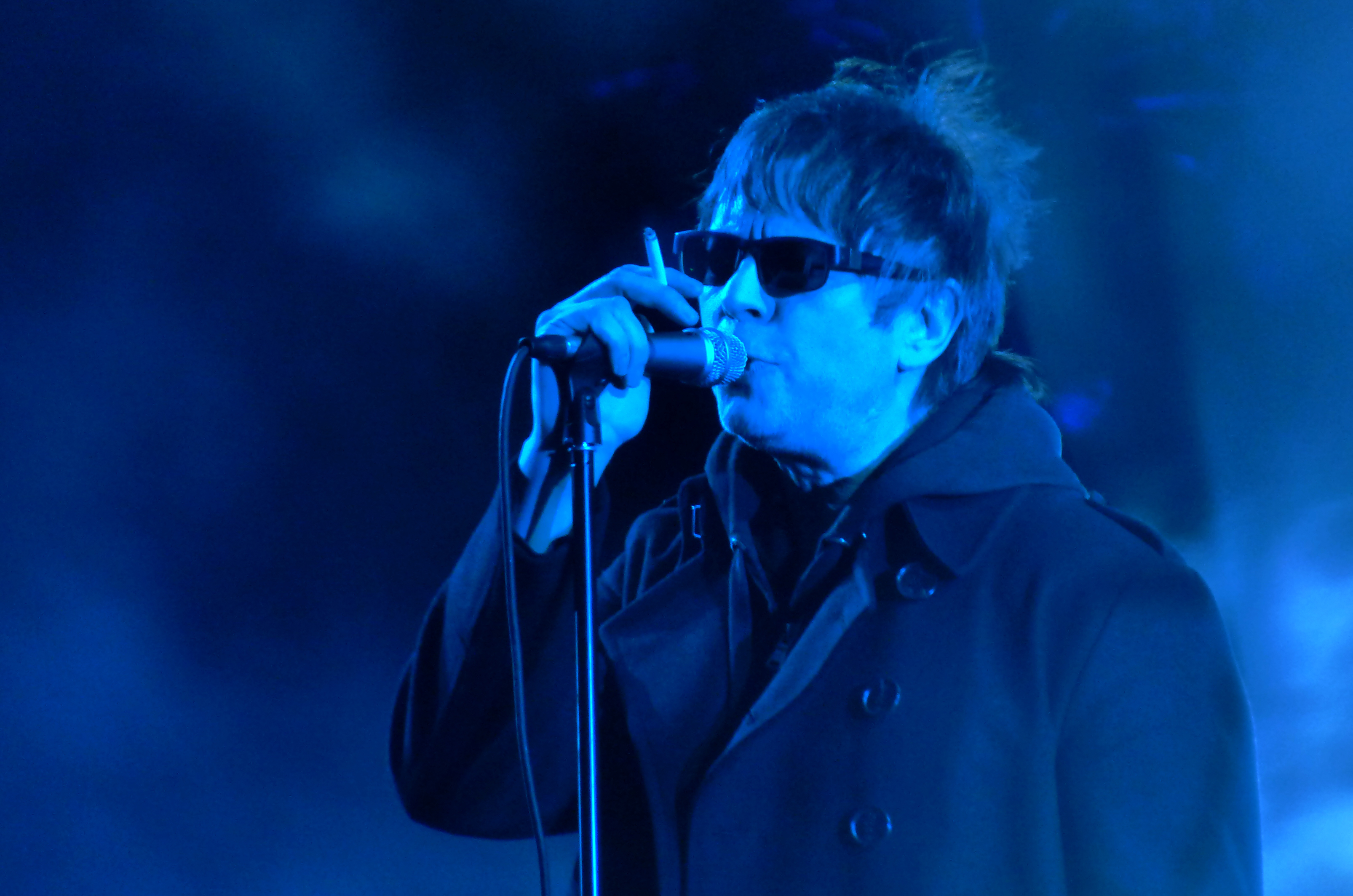 Ian McCulloch, singer of brtitish ban Echo and the Bunnymen.